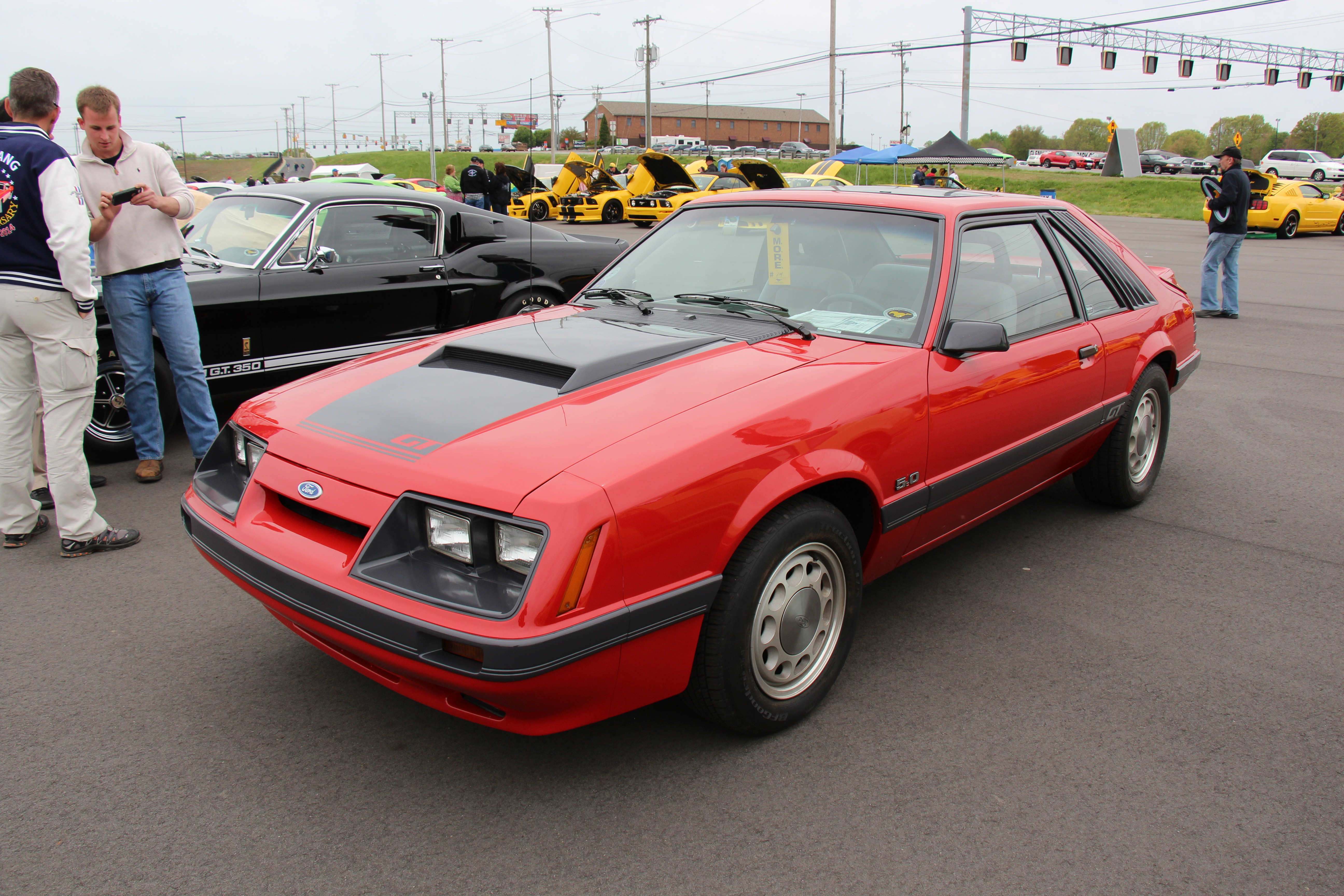 Bright Red. The 3rd generation Fox body Mustang was made from 1979-1993, a minor update to front and rear in 1983, the eggcrate grille gone, and again in 1985, a more aero, no grille look, then a more substantial update in 1987 saw the grille and quad headlights replaced by modern single headlights. In 1985 the Mustang was available again in coupe, hatchback and convertible. The L and Turbo GT were dropped leaving the LX, GT and SVO. Much the same for 1986, but the 5.0 V8 was now fuel injected at 200hp Photographed at the 50th Anniversary of the Mustang celebrations at the Charlotte Motor Speedway, April 2014